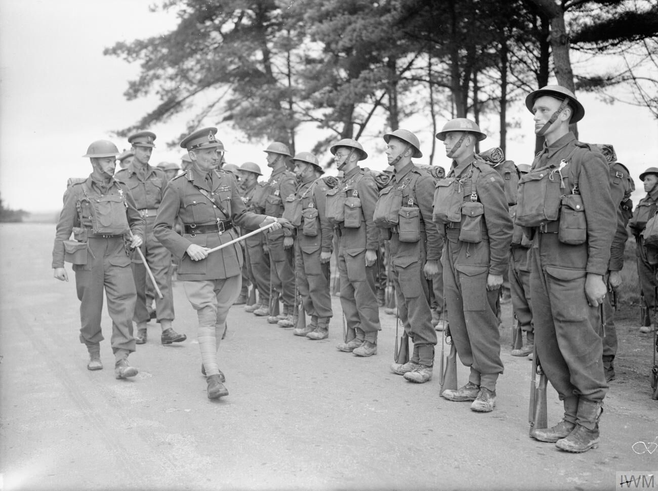 The British Army in the United Kingdom 1939-45 General Bernard Montgomery, commanding 5th Corps, inspecting men of the 7th Battalion, the Suffolk Regiment, at Sandbanks near Poole, 22 March 1941.